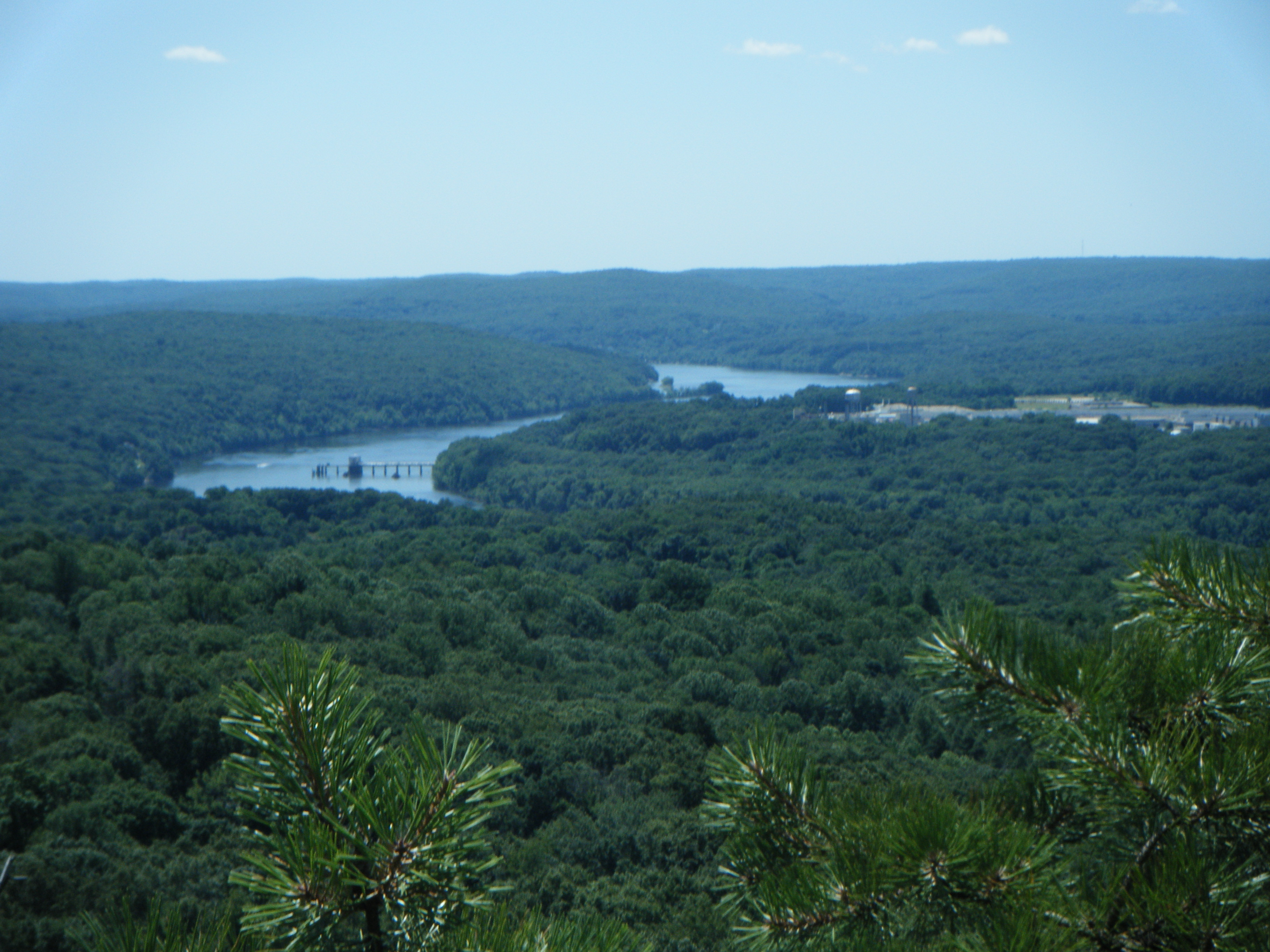 Picture taken from Great Hill on the Shenipsit Trail in E Hampton, CT